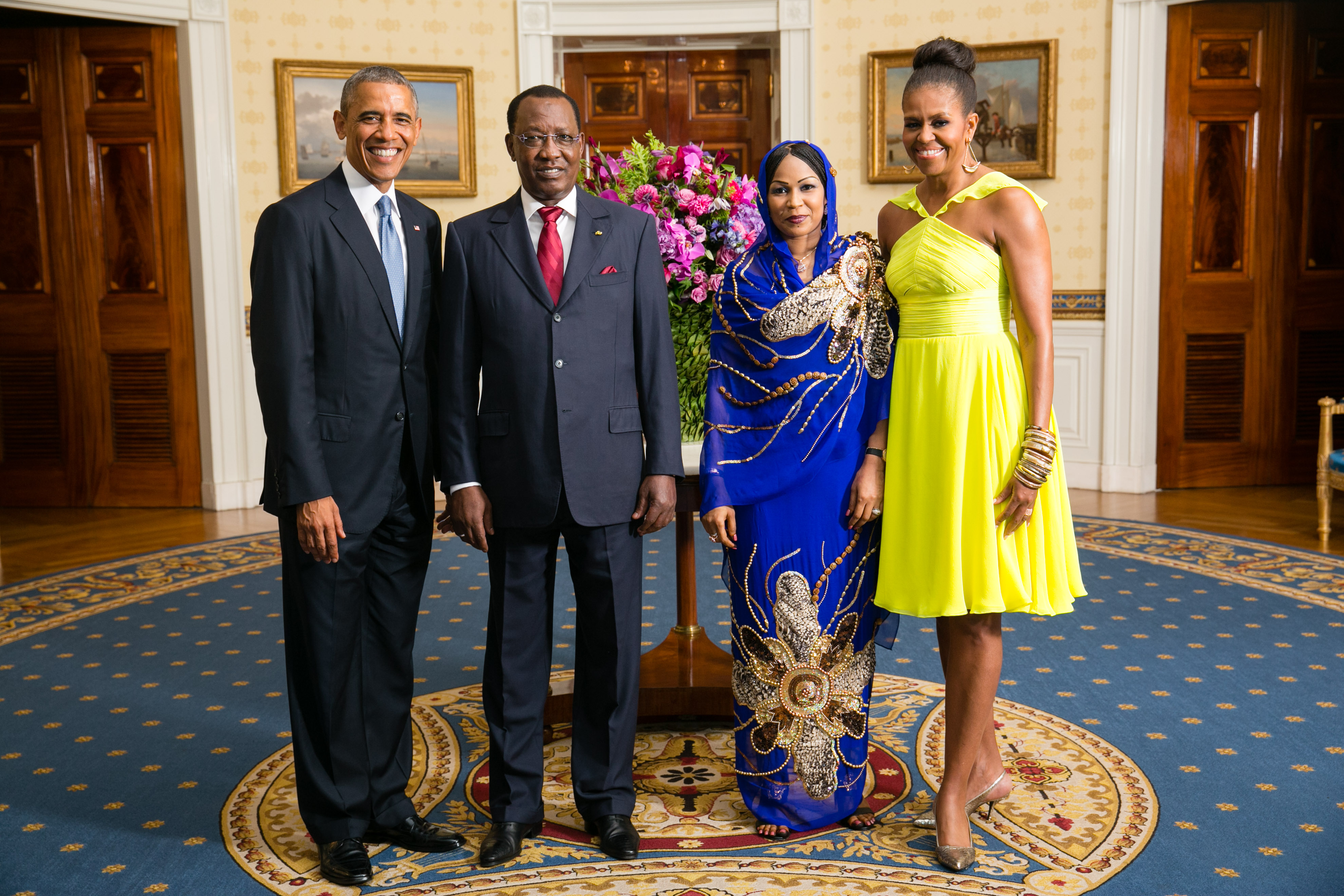 President Barack Obama and First Lady Michelle Obama greet His Excellency Idriss Deby Itno, President of the Republic of Chad, and Mrs. Hinda Deby Itno, in the Blue Room during a U.S.-Africa Leaders Summit dinner at the White House, Aug. 5, 2014. [Official White House Photo by Amanda Lucidon] This official White House photograph is in the public domain from a copyright perspective, so while restrictions such as personality or privacy rights may apply, in general, manipulations are allowed.